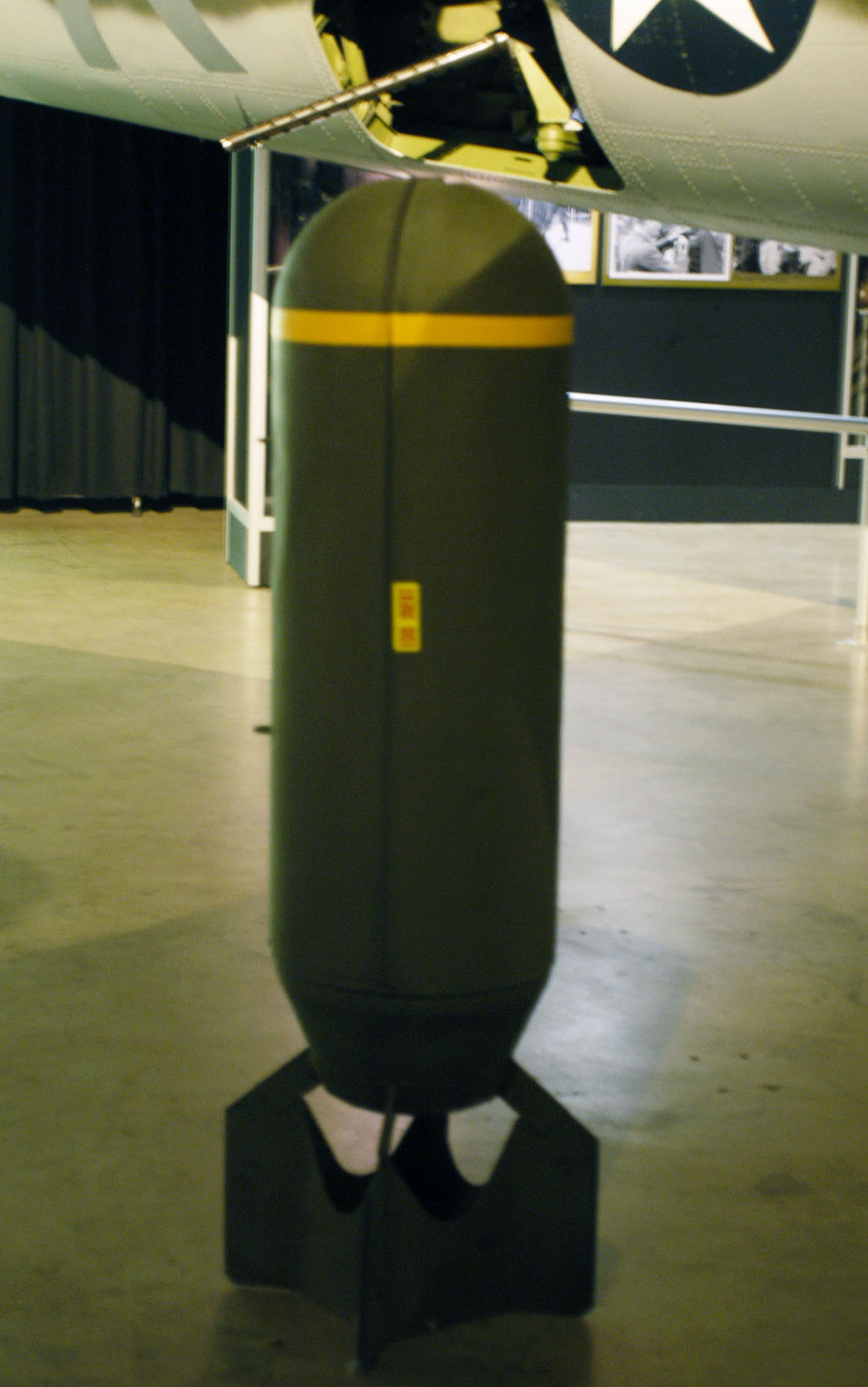 US Air Force M29 Cluster Bomb from World War II. Used against troops, unarmoured vehicles and artillery.